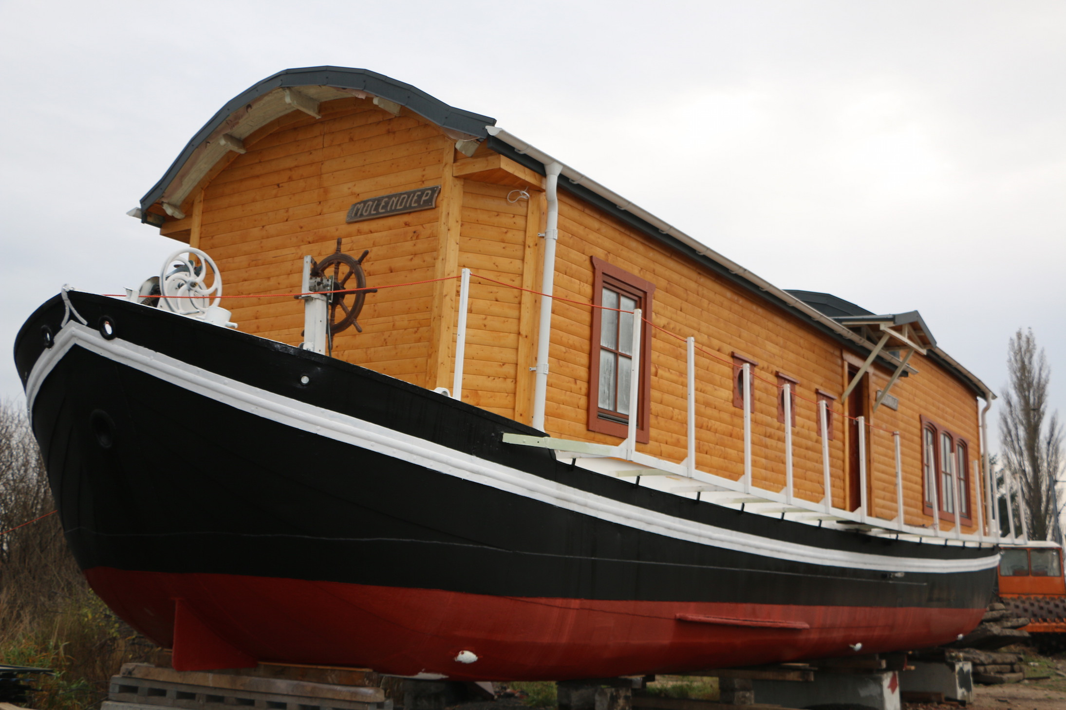 Houseboat Molendiep, ex Ijselaak, Holland, 1909